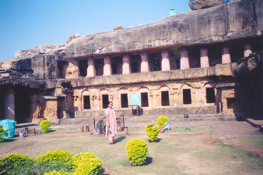 Ranigumpha (cave no-1), Udayagiri